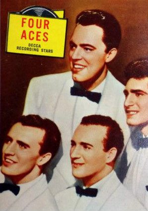 Trading card photo of The Four Aces. In 1957, Topps gum cards issued a series of movie stars, television stars and recording stars. They were part of their recording stars cards.